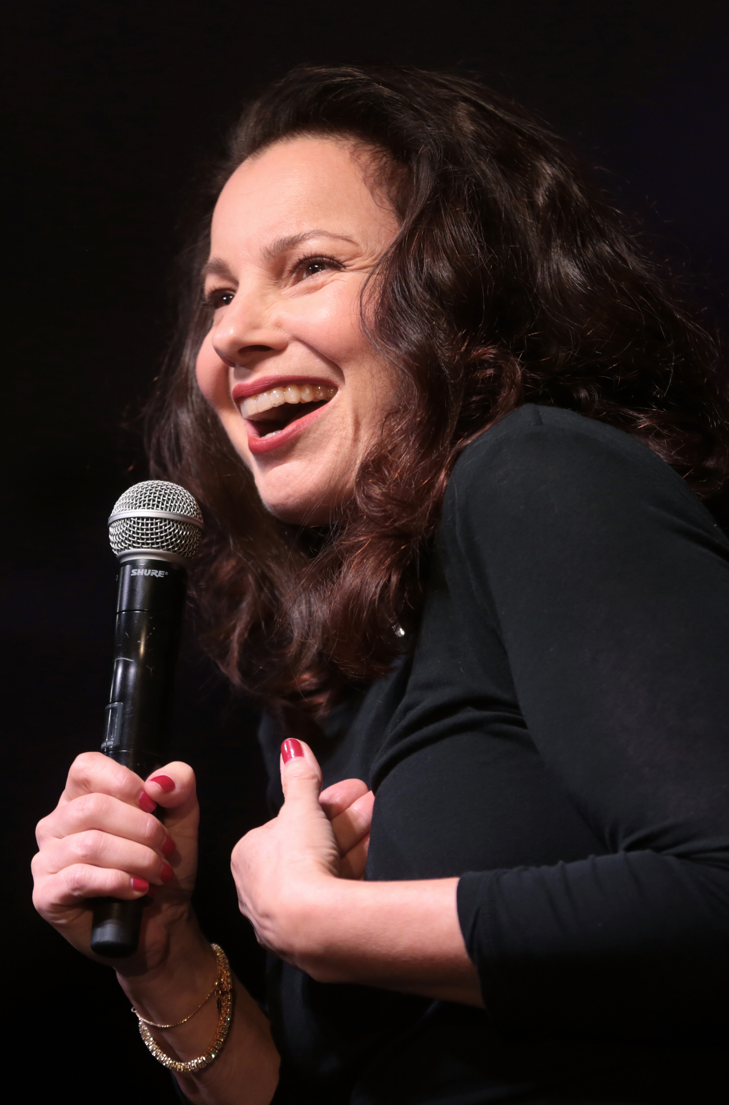 Fran Drescher speaking at an event in Phoenix, Arizona.